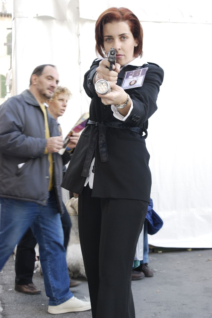 Dana Scully Cosplay